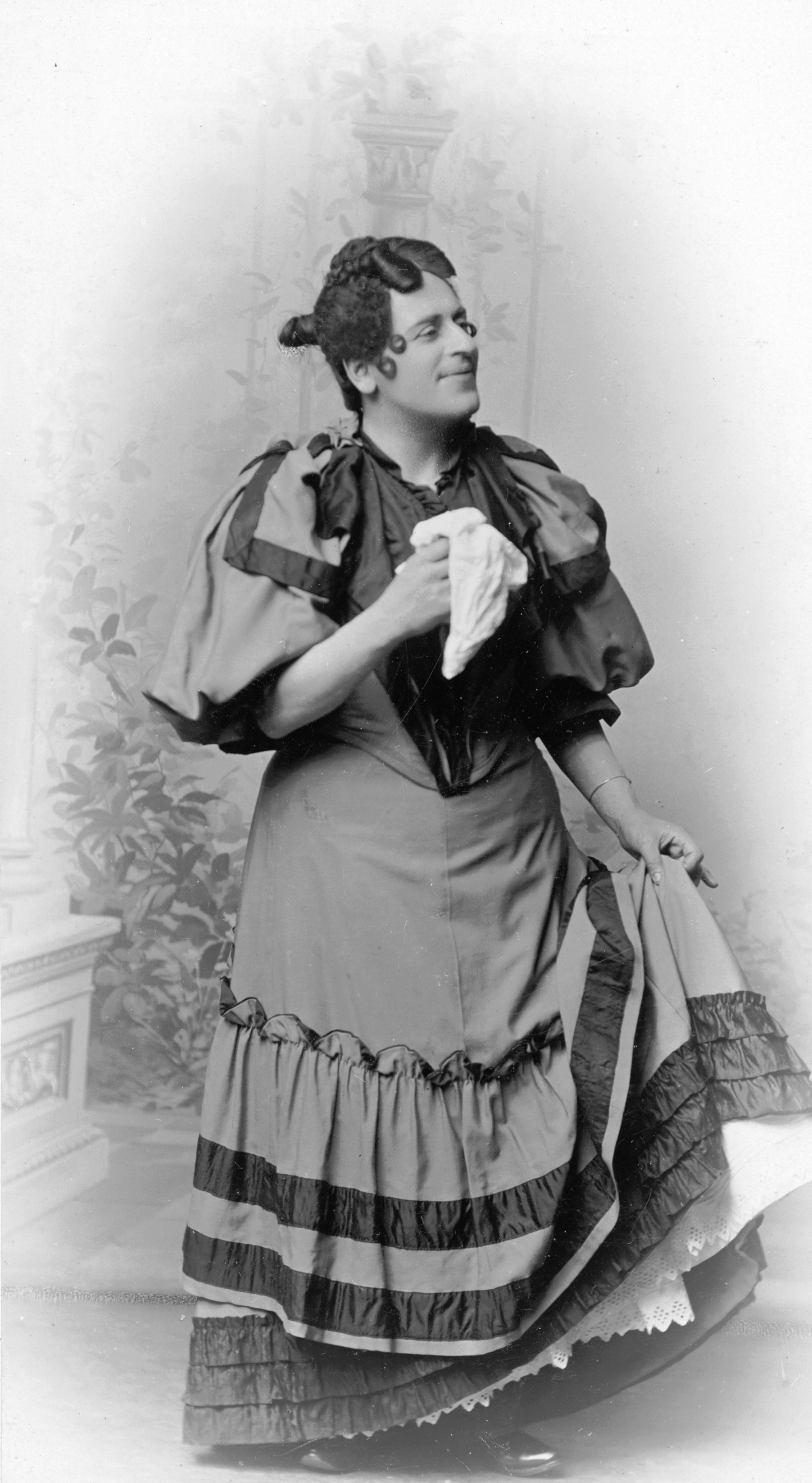 Hjalmar Hirsch as Lord Francourt Babberly in the first Swedish production of Charley's Aunt in 1894.